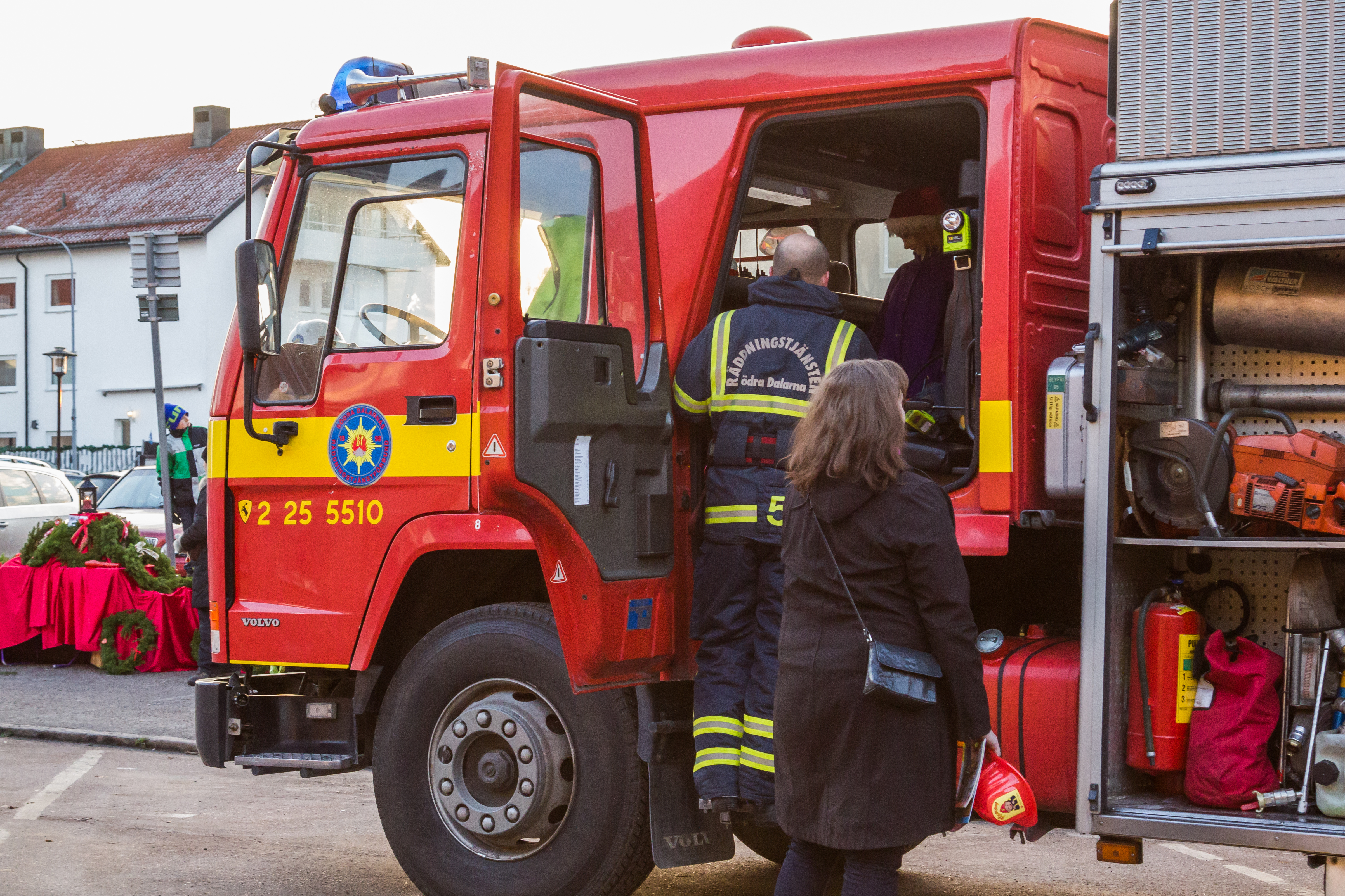 Firemen showing some of their vehicles for the public. 1996 Volvo FL10 fire engine. Hedemora, Dalarna county, Sweden.